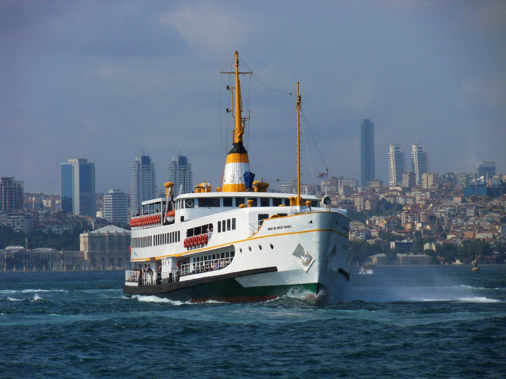 Aykut Barka goes to Kadıköy